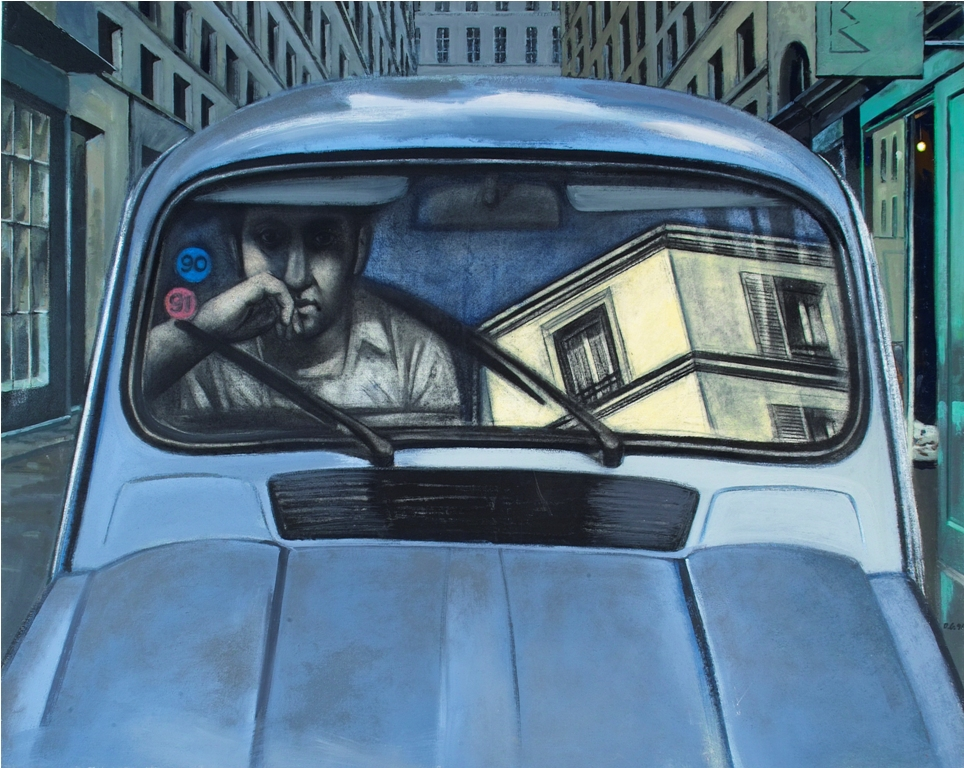 A work by Israeli artist David Gerstein